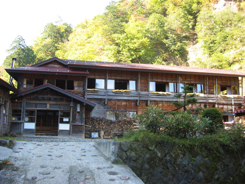 Photo by Yosemite 11:40, 25 November 2005 (UTC). Nikkosawa is Category:Onsen in Japan.